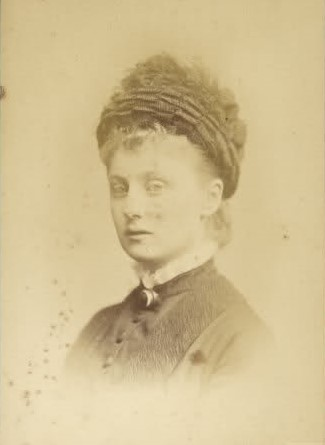 Karoline Mathilde of Schleswig-Holstein-Sonderburg-Augustenburg